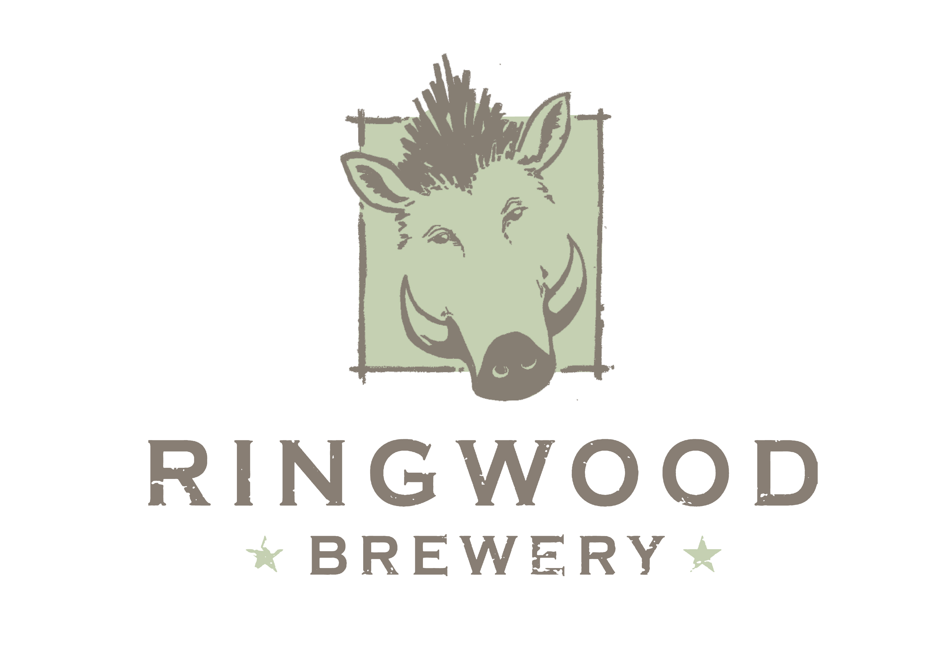 The Brewery Logo